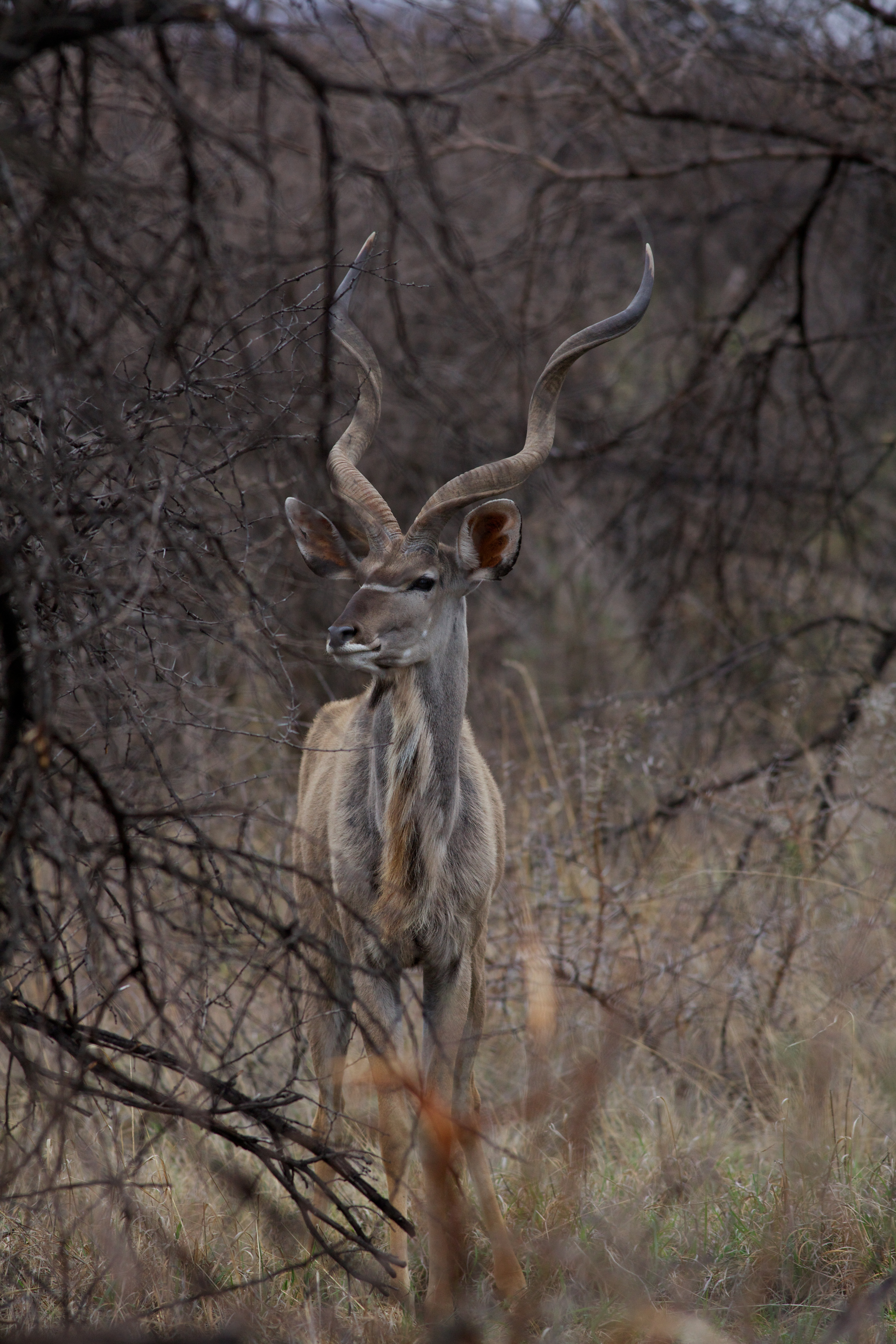 Greater Kudu at Madikwe Game Reserve in South Africa.